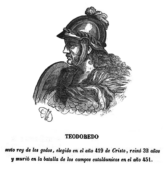 Drawing portrait of Visigoth king, printed into the book with N° 6 TEODOREDO or TEODORICO I